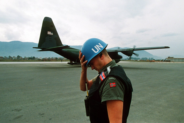 A United Nations peacekeeper from Norway holds his helmet as a Hercules C-130 transport plane lands at Sarajevo airport in the summer of 1992.